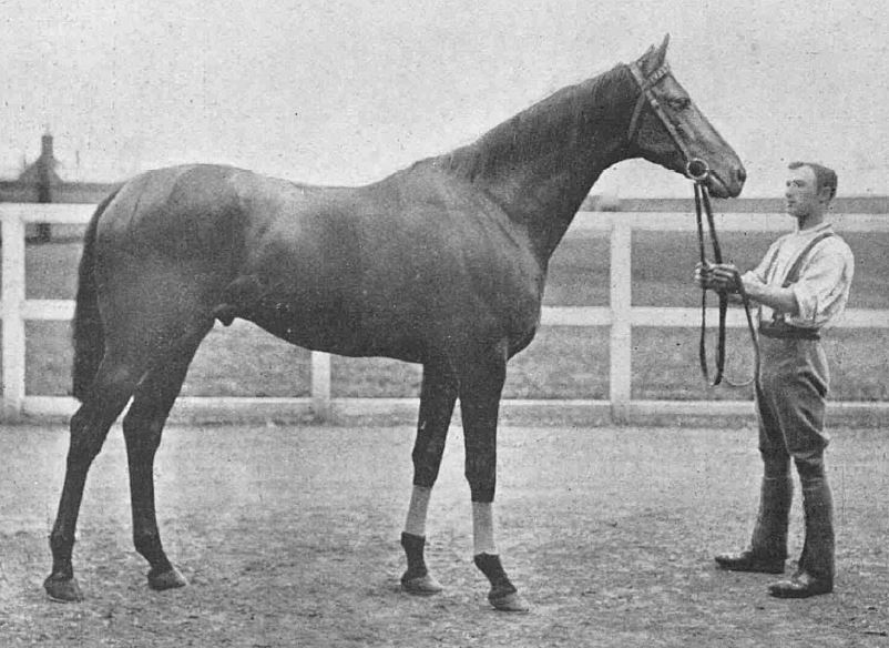 Kirkconnel, the winner of the 1895 2000 Guineas.